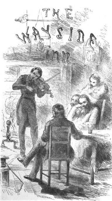 Title page illustration for an 1864 edition of Tales of a Wayside Inn by American poet Henry Wadsworth Longfellow. Published by Ticknor and Fields.